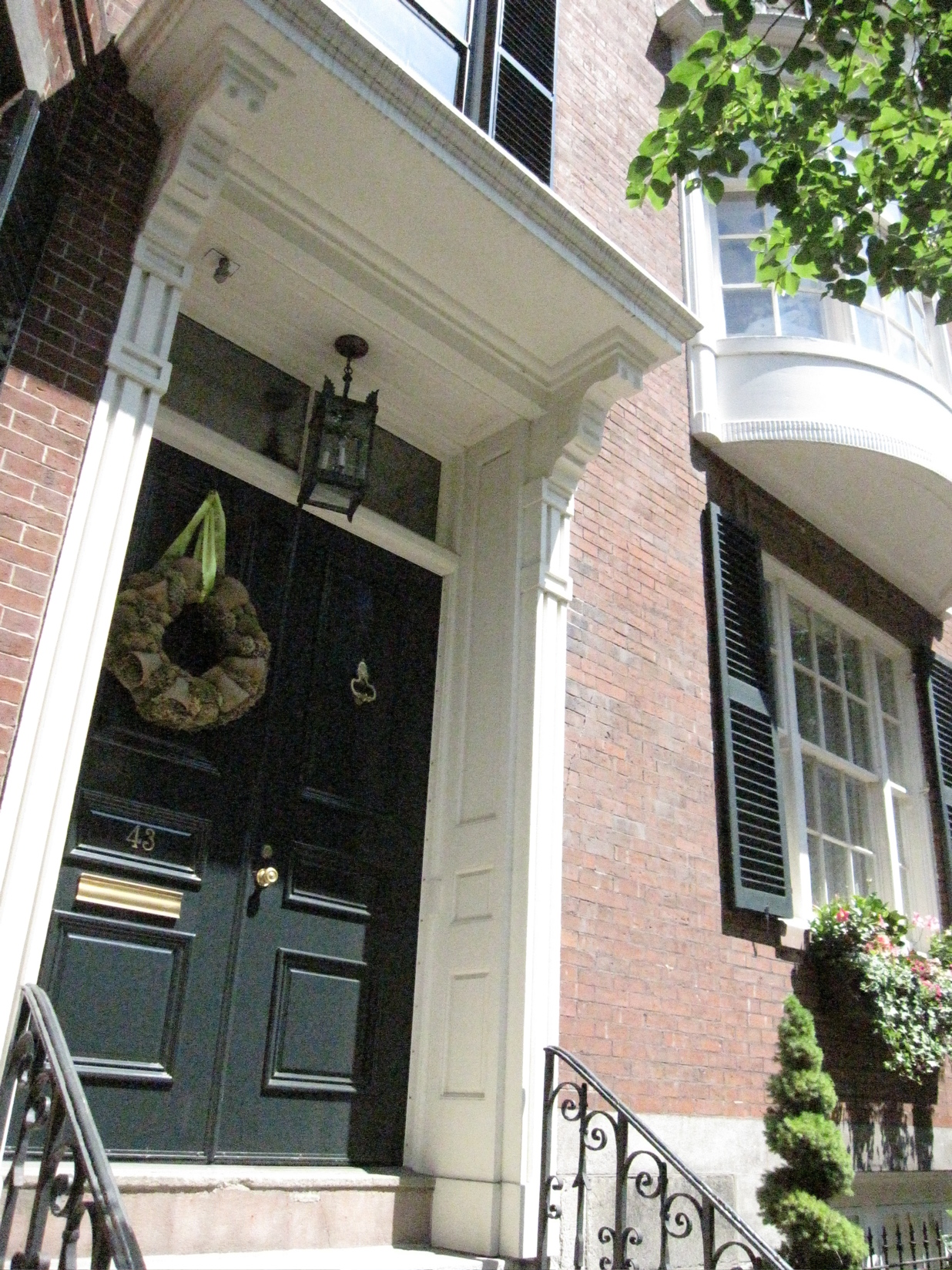 43 Chestnut St., Boston